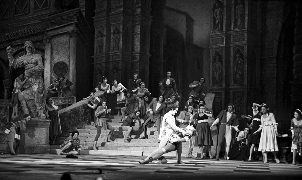 “Scene from Sergei Prokofiev's ballet Romeo and Juliet”. Ballet dancers performing a scene from Sergei Prokofiev's ballet Romeo and Juliet staged at the State Academic Bolshoi Theater of the USSR.